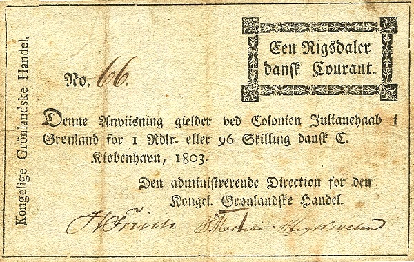 A banknote issued to circulate on the island of Greenland.